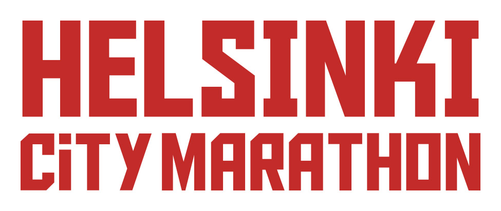 The logo of the Helsinki City Marathon 2017